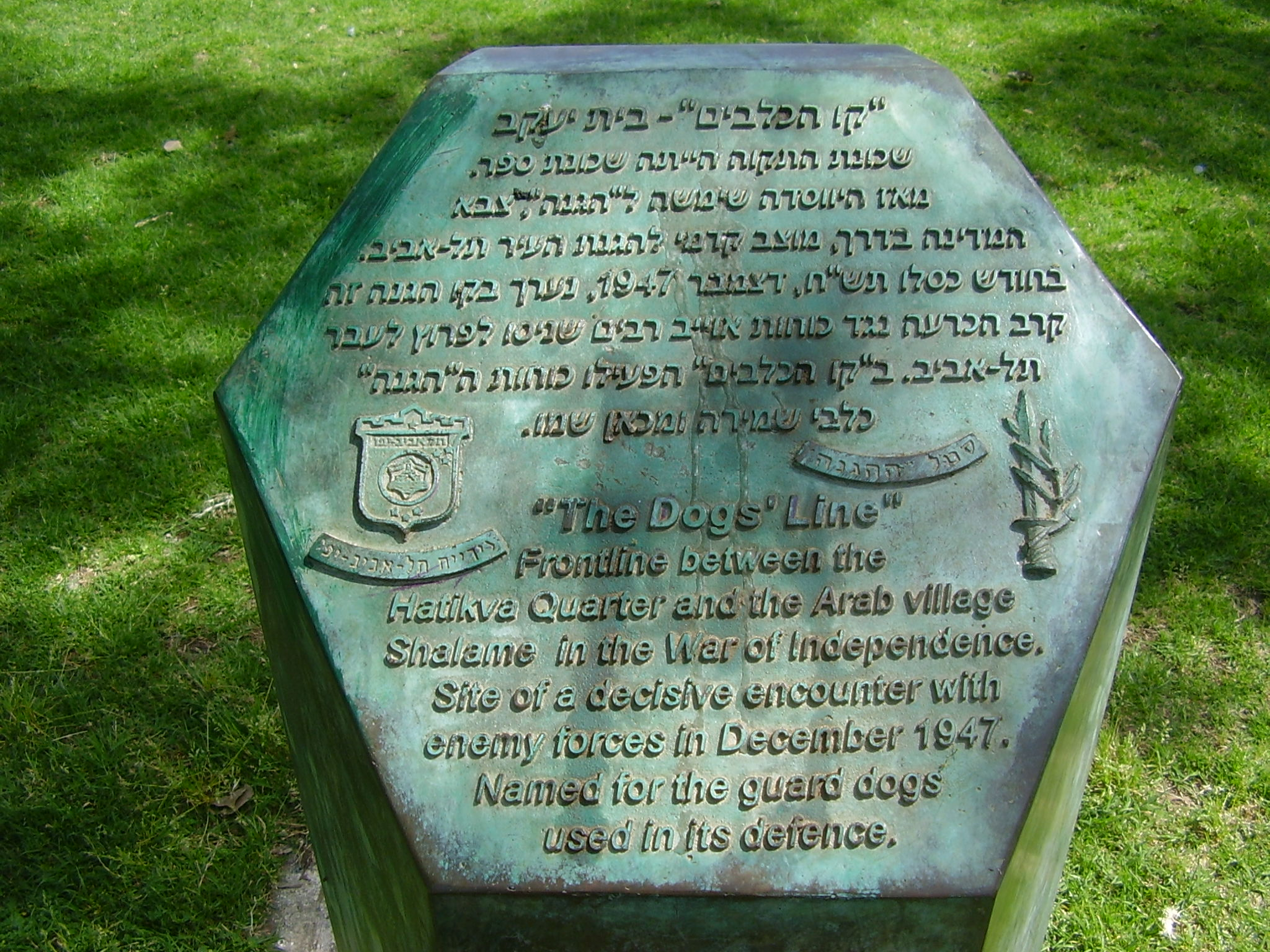 hatikva park, tel aviv